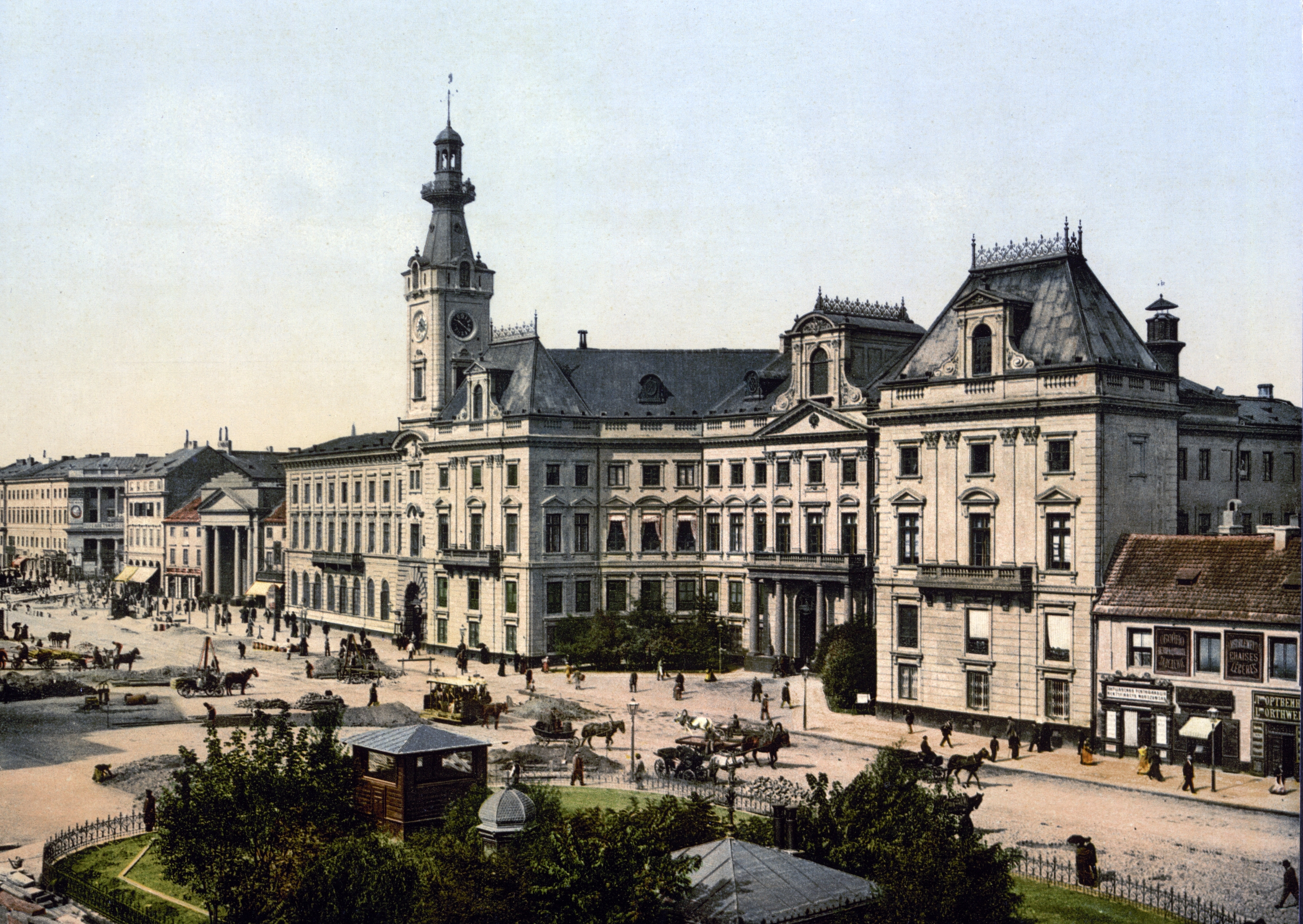 Theater Square Warsaw about 1900